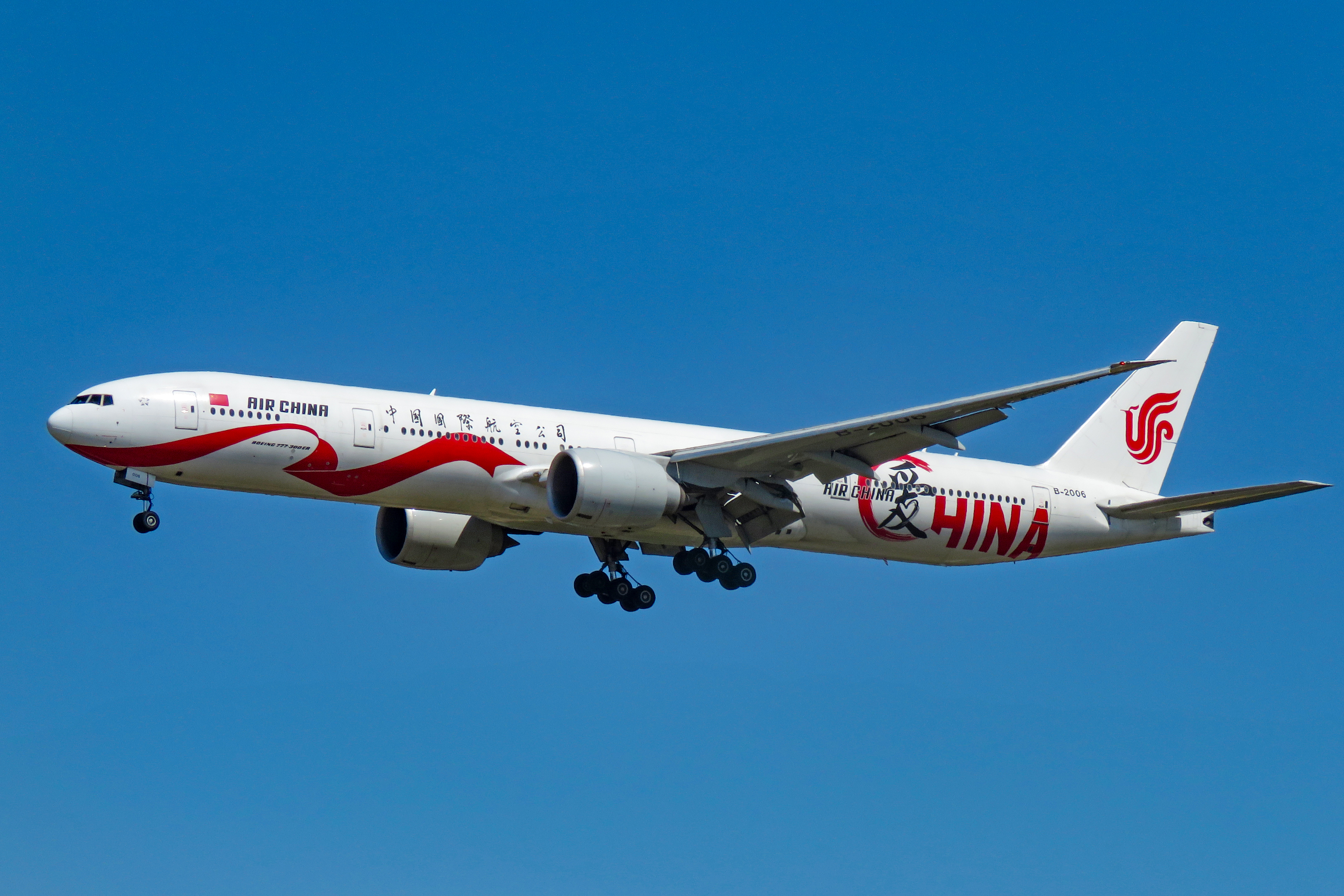 Air China 888 from Los Angeles.